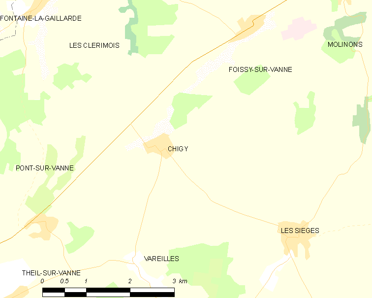 Map of French municipality Chigy